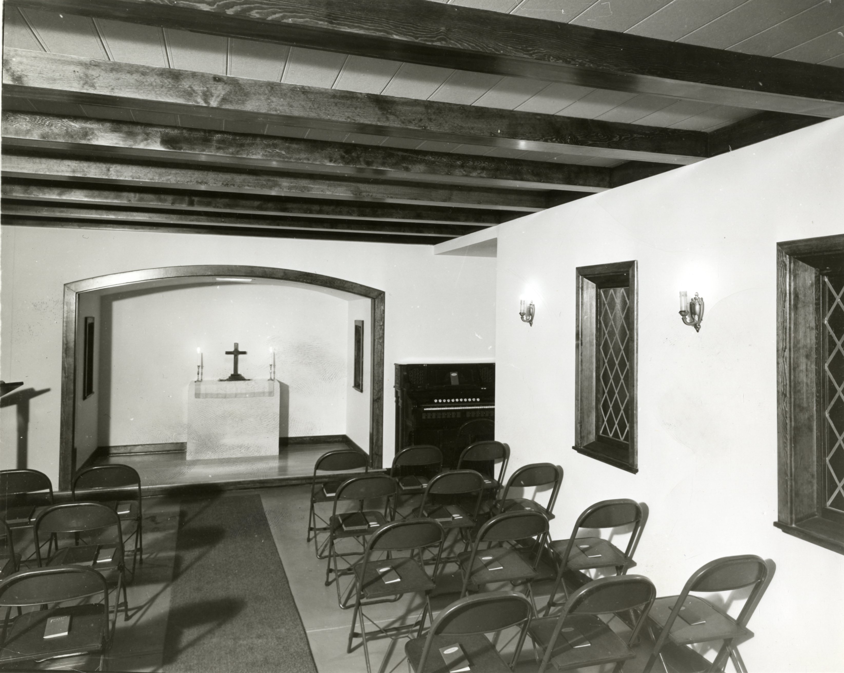 Photo of the interior of the "Little Chapel" in the basement of the Ira Allen Chapel at the University of Vermont. Although the photo is undated, it was published in the January 1957 edition of the "Bulletin of the University of Vermont" (Vol. 54, No. 01) /